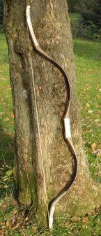 Hun bowlength 125cm strung, 132 cm unstrung.